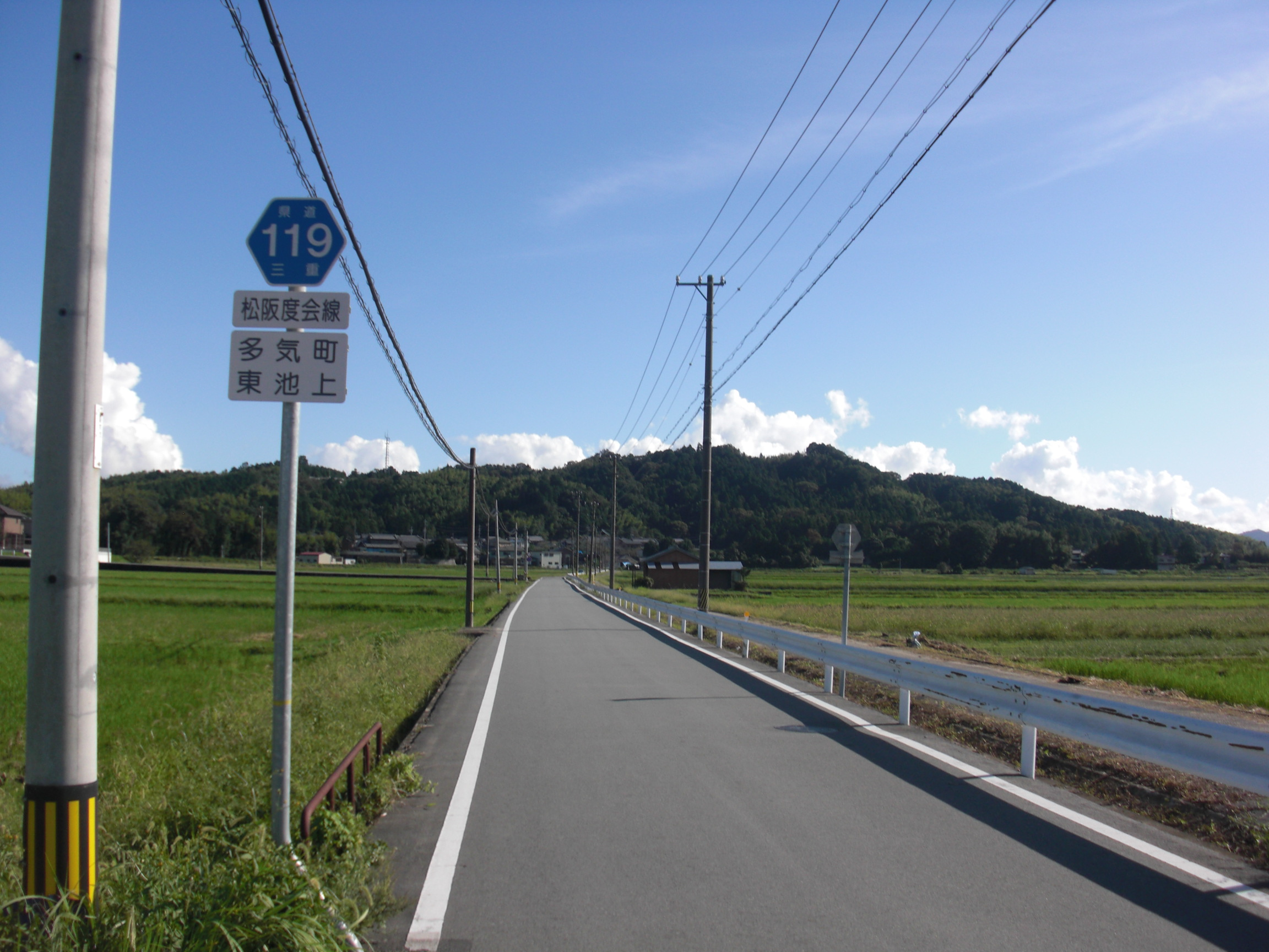 This is the mie prefectural road No.119 Matsusaka Watarai Line at Higashiikebe, Taki town, Taki district, Mie, Japan.